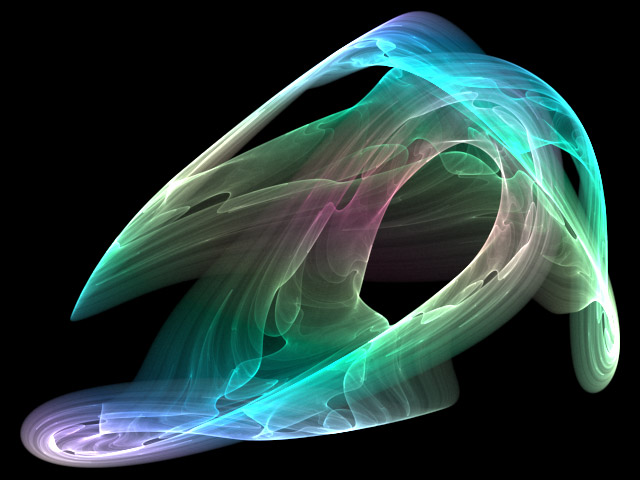 Attractor Poisson Saturne. Described by Professor Julien Sprott's in his book Strange Attractors: Creating Patterns in Chaos under its scientific name, "three dimensional quadratic map. See Sprott, Julien C. (1993) Strange Attractors: Creating Patterns in Chaos, M&T Books, p. 50. Archived from the original on 18 January 2016. ISBN: 978-1-55851-298-6. (5.9 MB) See also Dr. Sprott's webpage at University of Wisconsin.